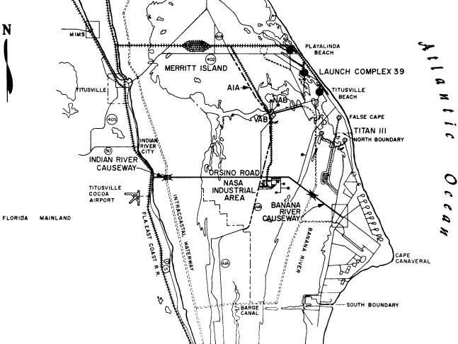 A 1963 map showing the layout of the Cape with two additional proposed launch sites for launch pads.